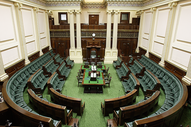 An aerial view of the Victorian Legislative Assembly chamber while it is empty.